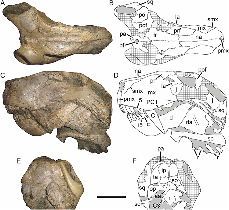 Holotype (RC 62) of Smilesaurus ferox Broom, 1948 in (A) dorsal, (C) left lateral, and (E) occipital view (with (B) (D) and (F) interpretive drawings). Abbreviations: aa, atlas-axis complex; c, lower canine; C, upper canine; C3, third cervical vertebra; d, dentary; fr, frontal; i, lower incisor; I, upper incisor; ip, interparietal; j, jugal; la, lacrimal; mx, maxilla; na, nasal; op, opisthotic; pa, parietal; PC, upper postcanine; pf, pineal foramen; pmx, premaxilla; po, postorbital; pof, postfrontal; prf, prefrontal; r, rib; rla, reflected lamina of angular; sc, scapula; smx, septomaxilla; so, supraoccipital; sq, squamosal; ta, tabular. Gray indicates matrix, hatching indicates plaster. Scale bar equals 10 cm.